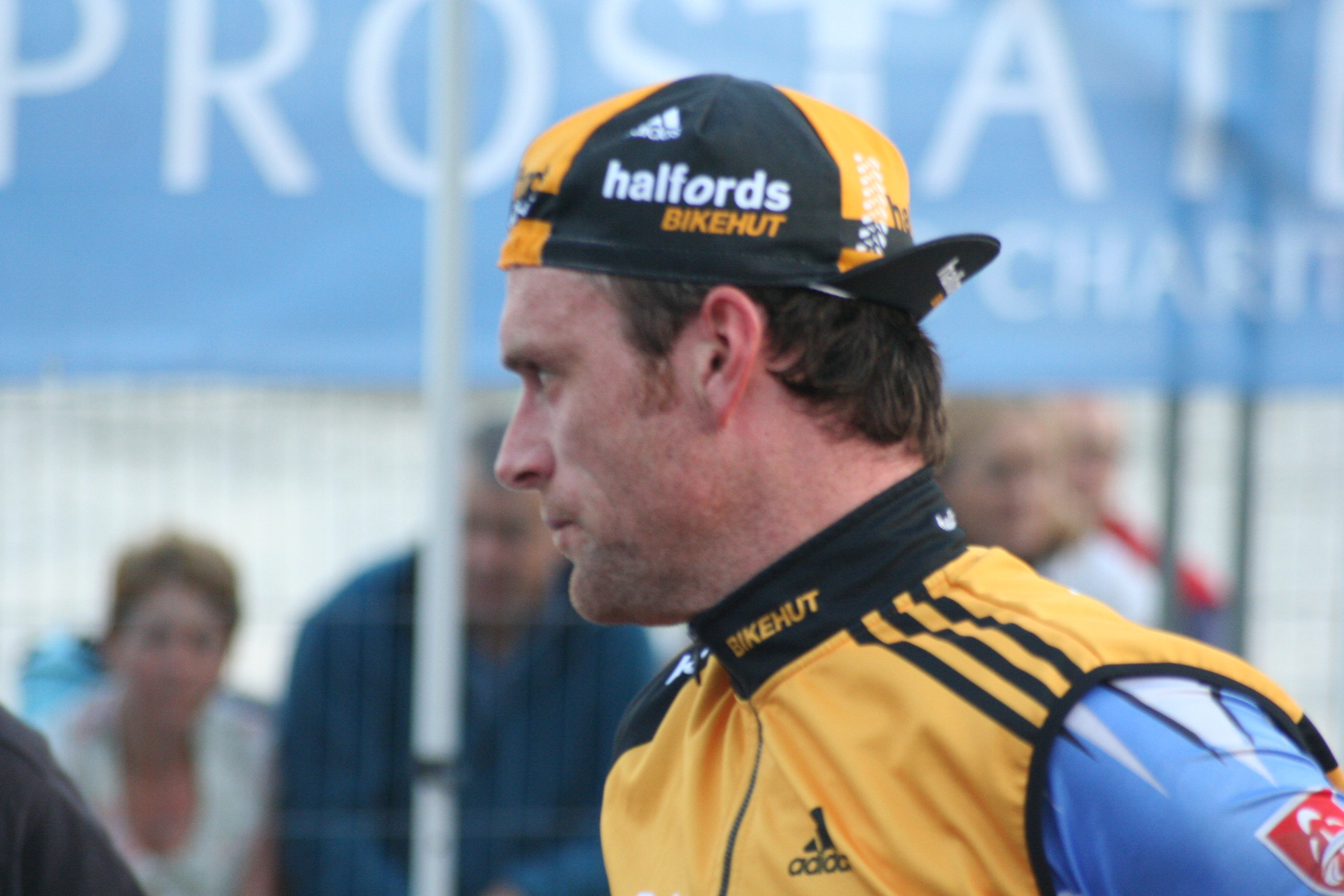 Rob Hayles, Halfords.